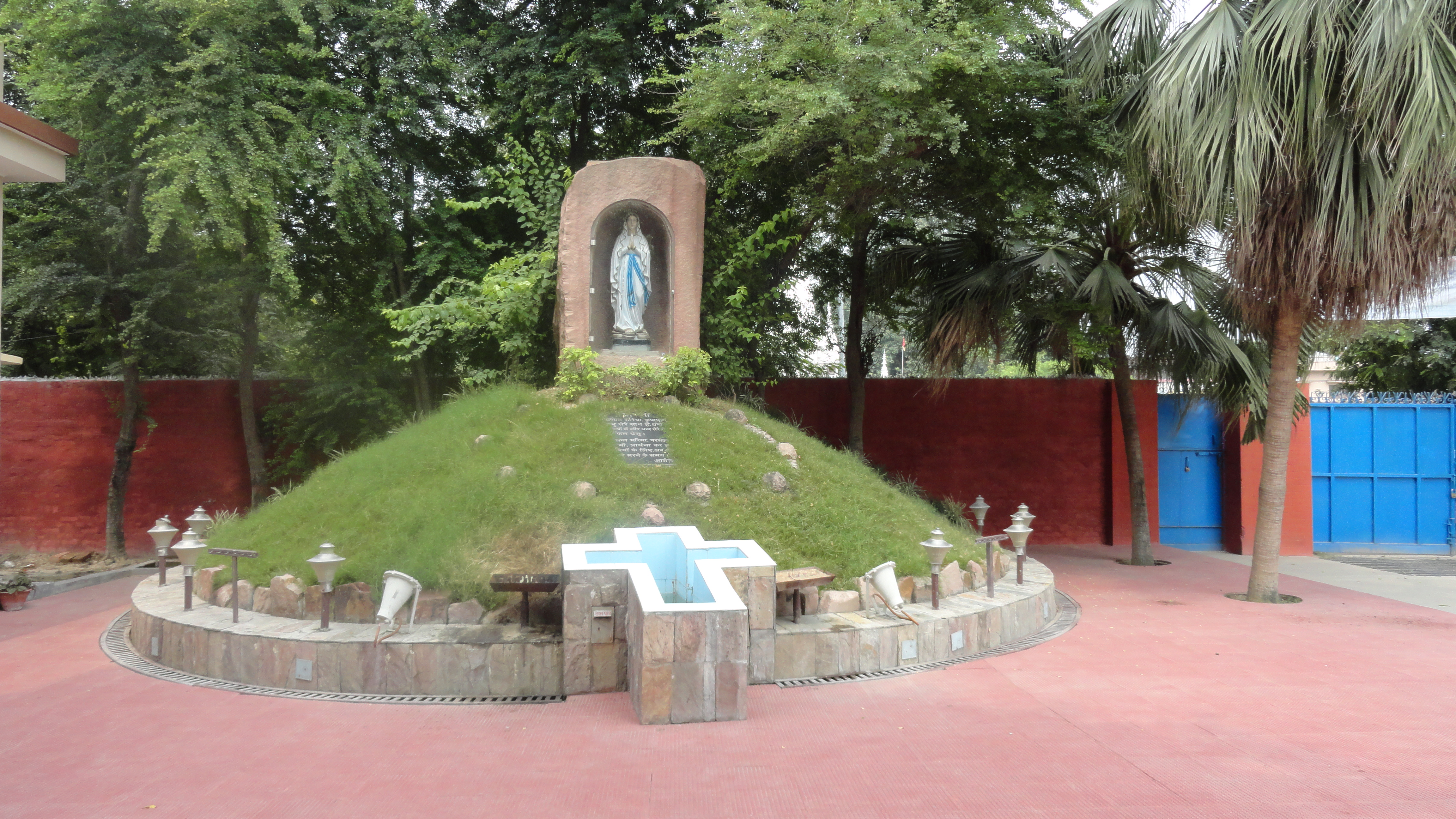 'The school also houses a church at the edge of the campus.